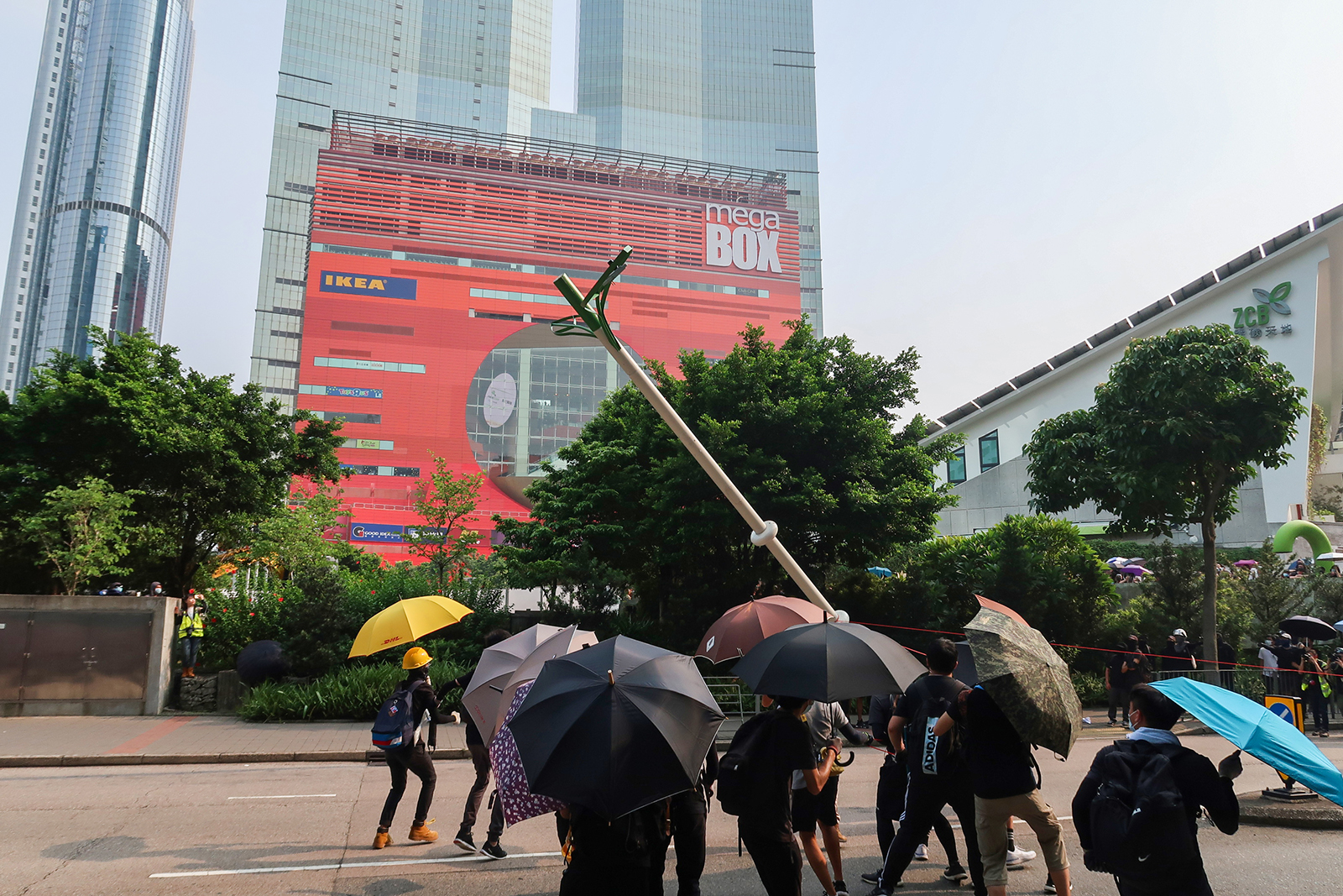 Sheung Yuet Road lamppost after protesters destroy